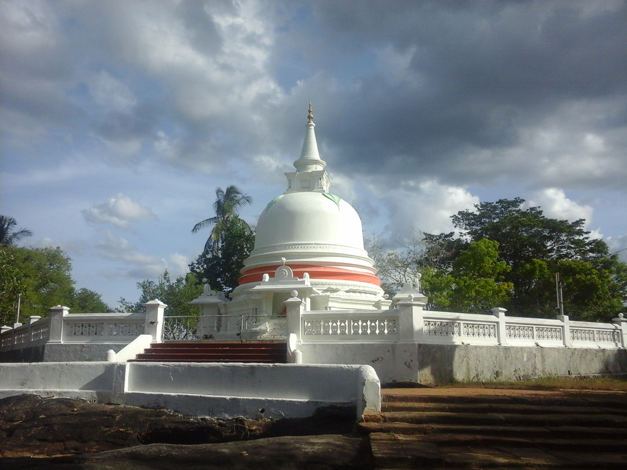 Udayagiri Rajamaha Vihara - Pagoda